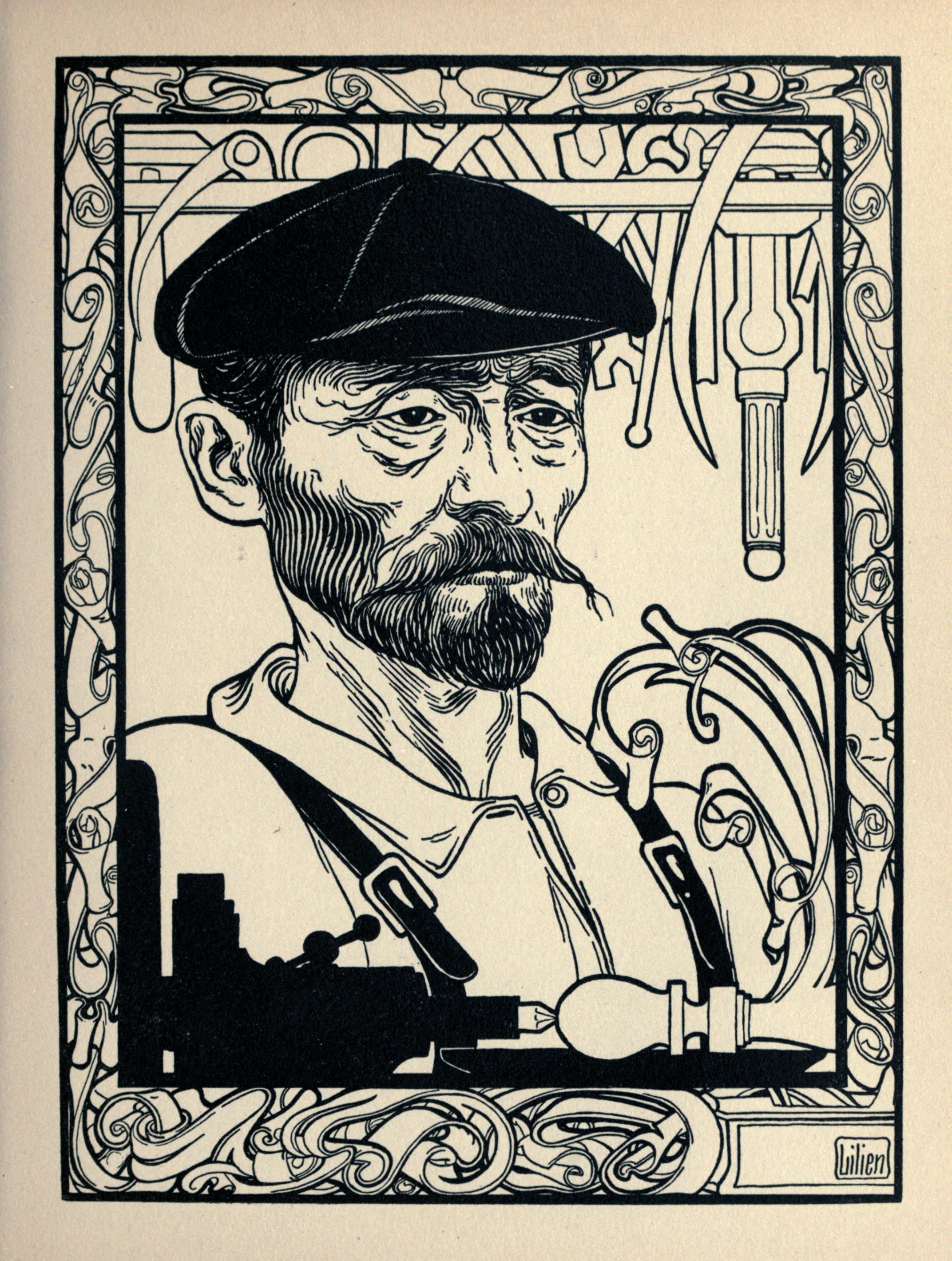 Illustration by Lilien (1874-1925) of the book (1903): Lieder des Ghetto of Morris Rosenfeld; translation from yiddish to german by Berthold Feiwel; Porträt von Jacob Lilien